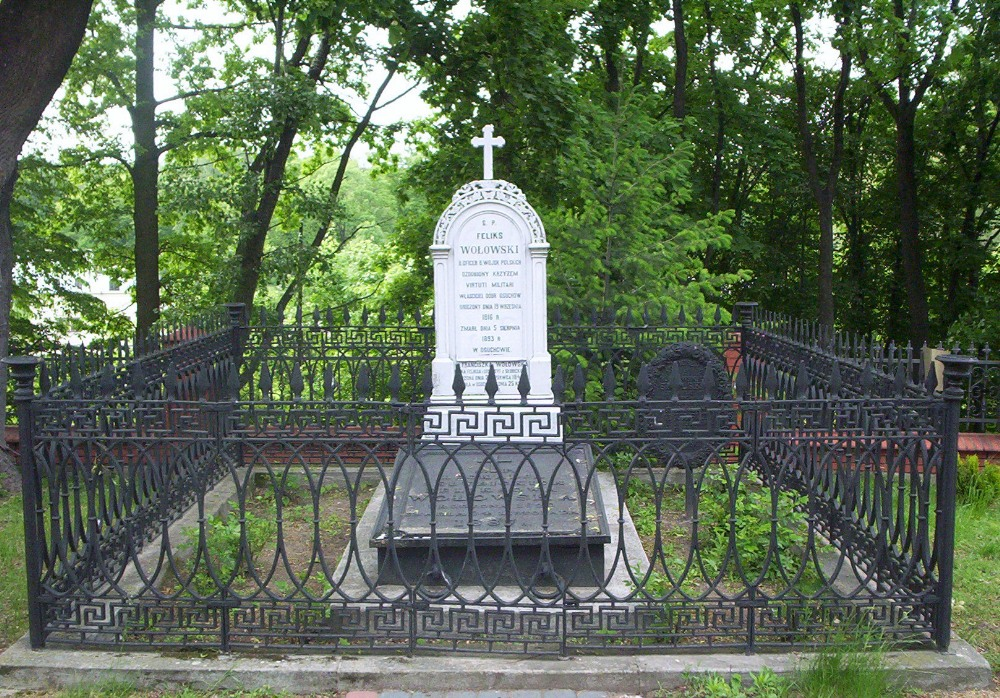 Grave near church in Osuchów, Poland.